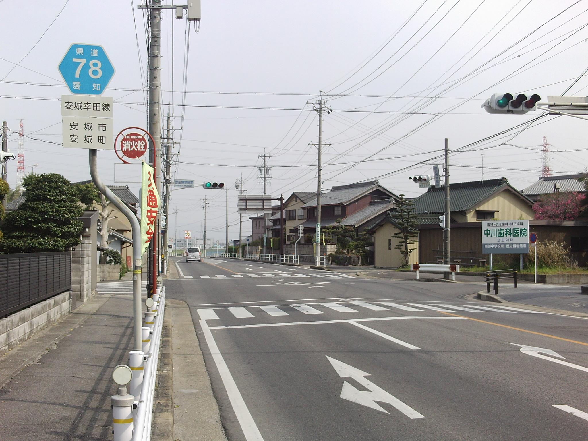 Aichi prefectural road No.78 in Anjocho, Anjo, Aichi.